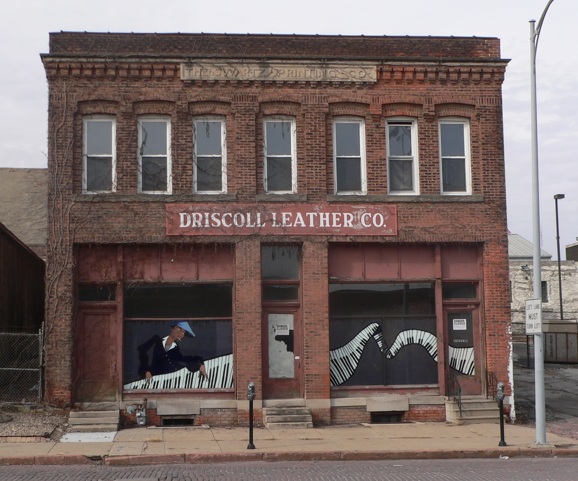 Swartz Printing Company building, located at 714 S. 15th Street (west side of 15th between Jones and Leavenworth); seen from the east.